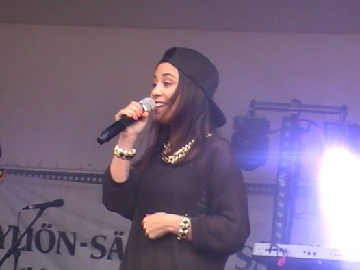 Finnish female artist Anna Abreu performing at "Kaislikossa Kuhisee" carnival in Säkylä, Finland.